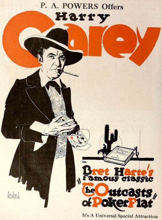 Advertisement for the American film The Outcasts of Poker Flat (1919) with Harry Carey, on page 404 of the July 12, 1919 Motion Picture News.